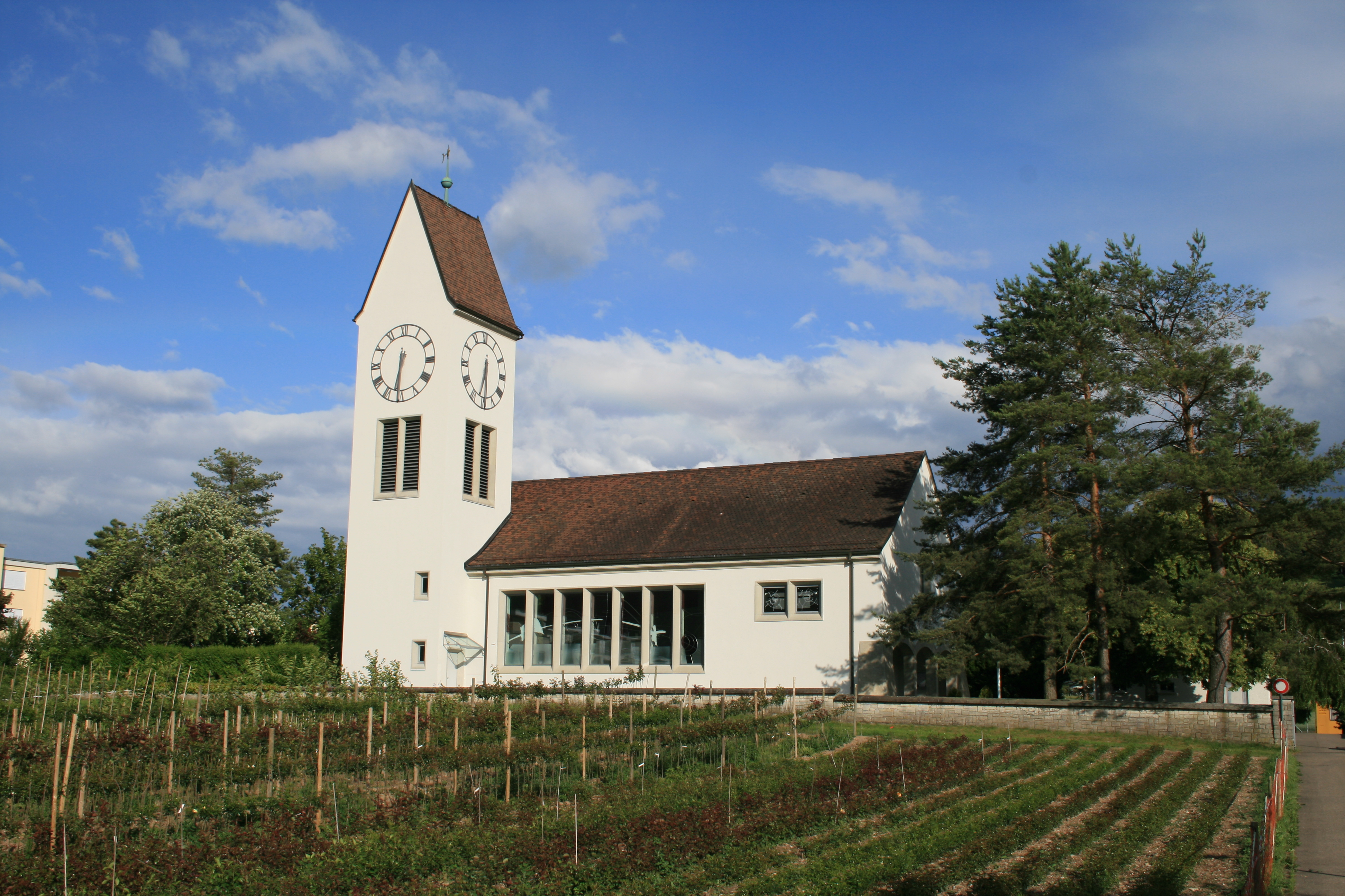 Ref. church of Wuerenlos, Switzerland